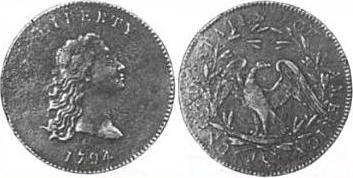 Photograph of a United States pattern dollar dated 1794